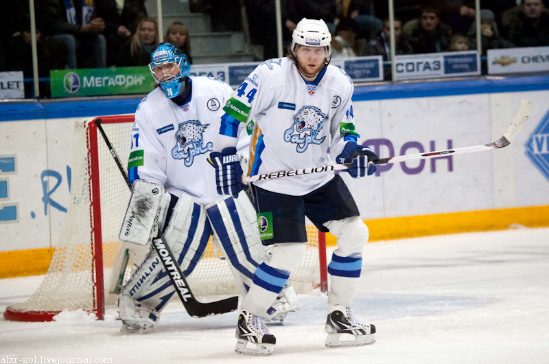 Barys Astana players Vitaliy Yeremeyev (at left) and Jonas Junland during KHL game against Amur Khabarovsk on December 10, 2011.